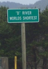 D River, world's shortest river